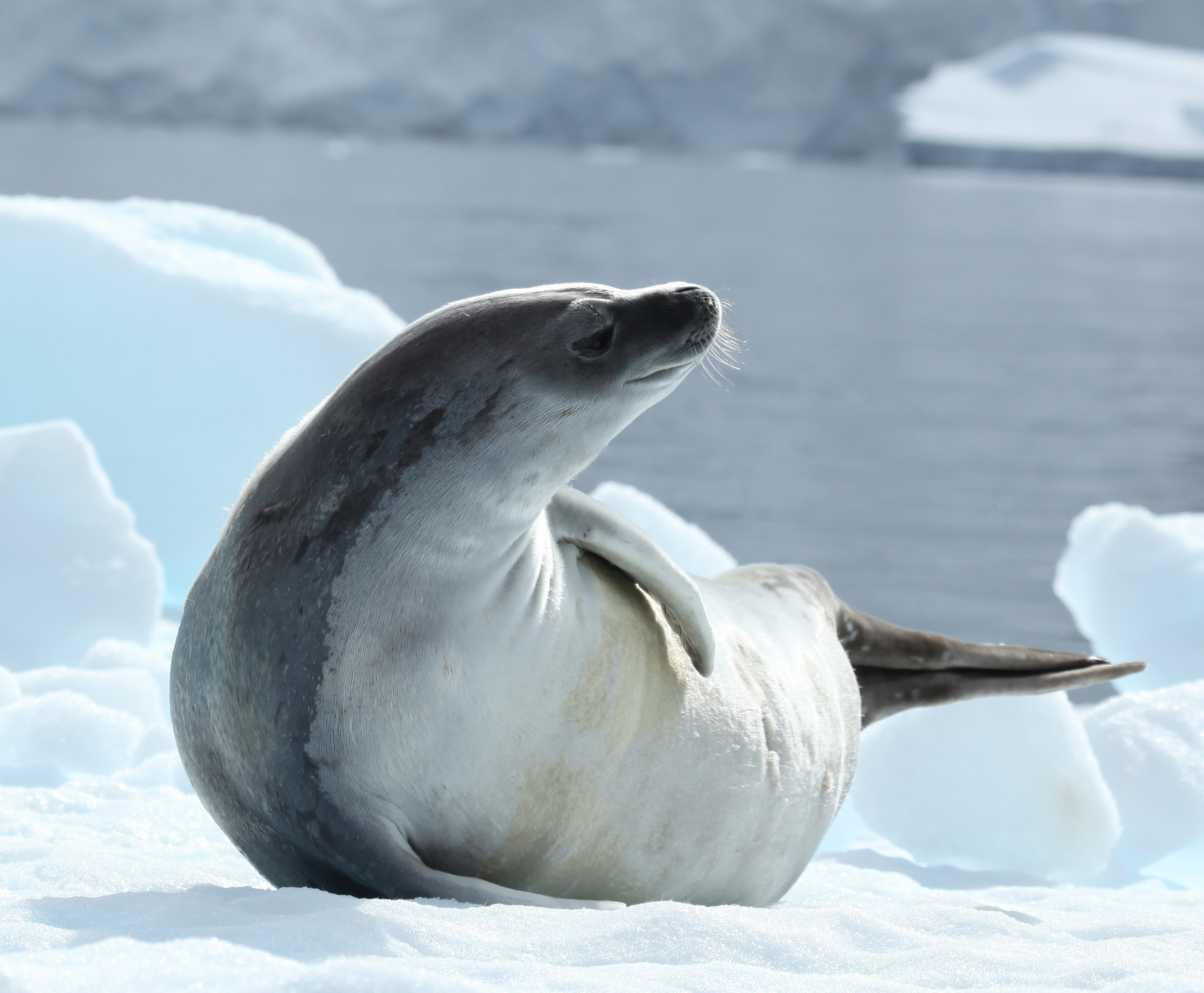 Crabeater Seal in Pléneau Bay, Antarctica